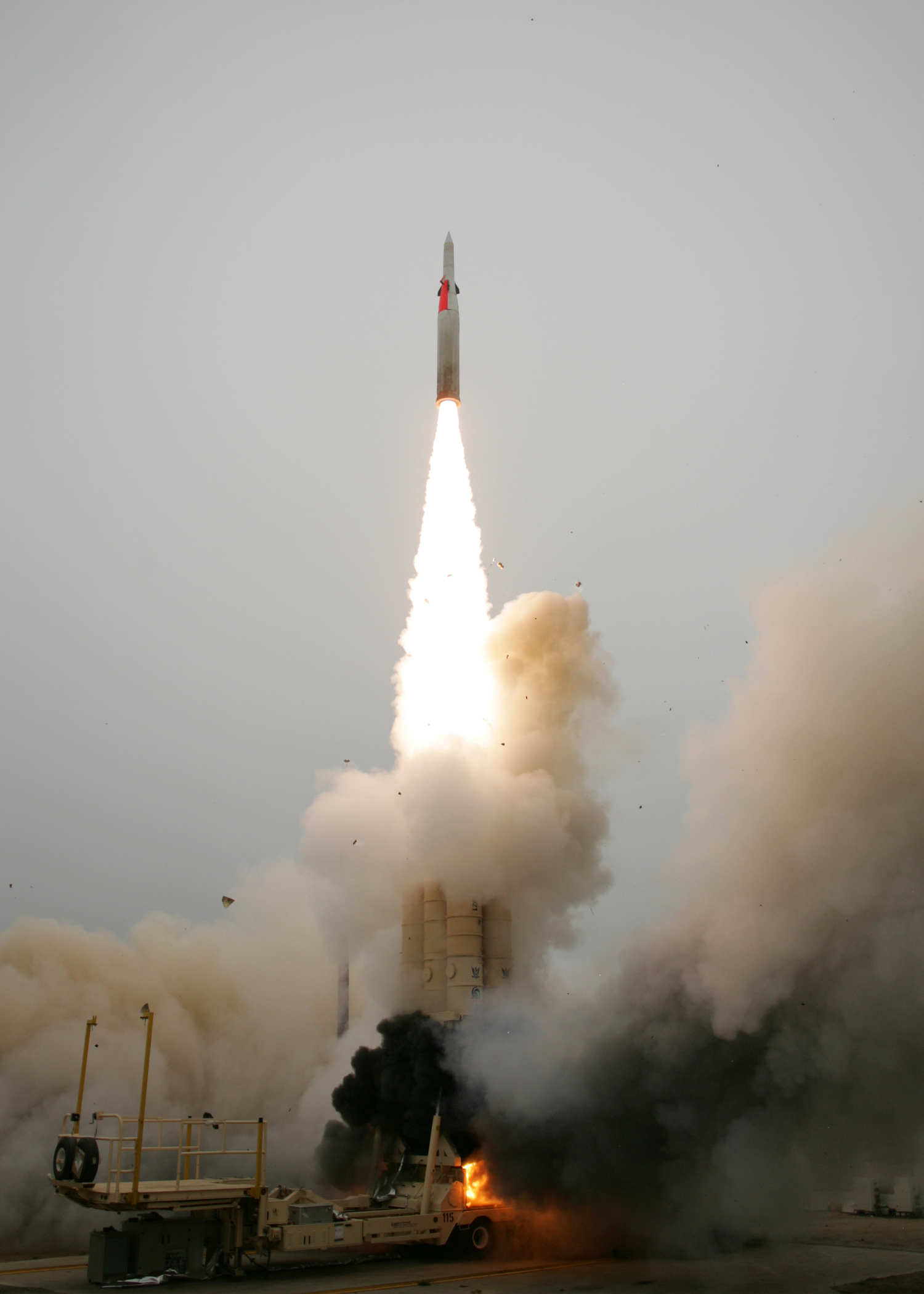 original image caption: 040826-N-0000x-002 Point Mugu Sea Range, Calif. (Aug. 26, 2004) – An Arrow anti-ballistic missile interceptor is launched from its mobile platform during a joint Israel/United States developmental test at the Point Mugu Sea Range, Calif. This was the second in a series of tests following a previous successful test in which a target that represents a real threat to Israel was intercepted and destroyed. The test was part of the on going Arrow System Improvement Program. U.S. Navy photo (RELEASED)